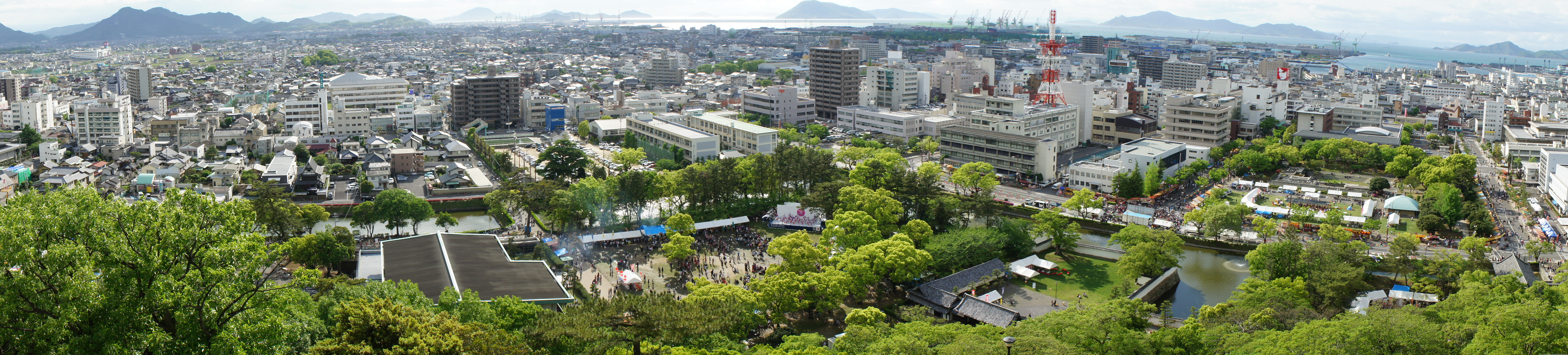 Panoramic view of Marugame city, the day of Marugame Castle Festival.